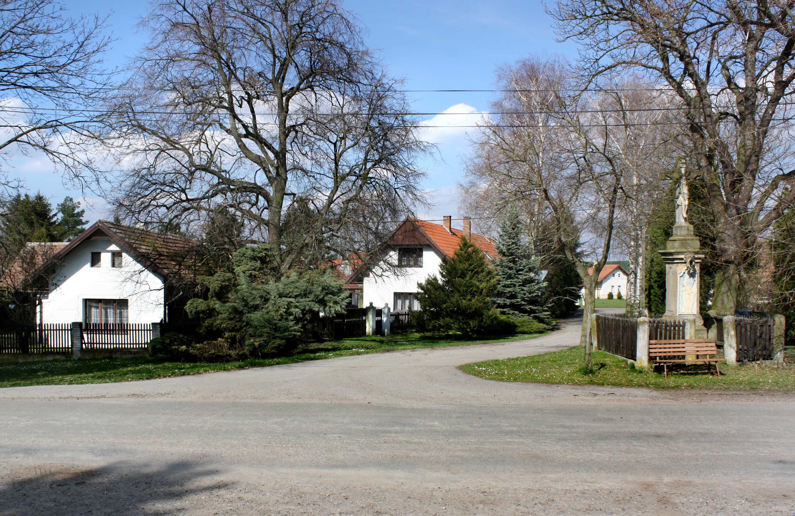 Common in Dubečno, part of Kněžice village, Czech Republic